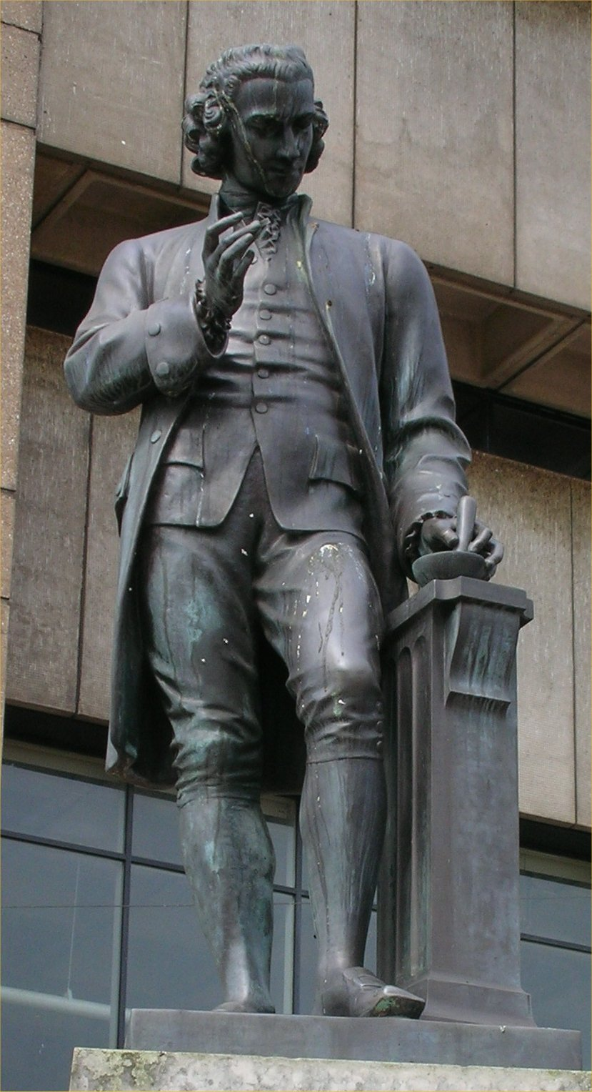 Statue of Joseph Priestley, Chamberlain Square, Birmingham, England. 1874 by A W Williamson, recast in bronze 1951. Photographed 6 June 2006.